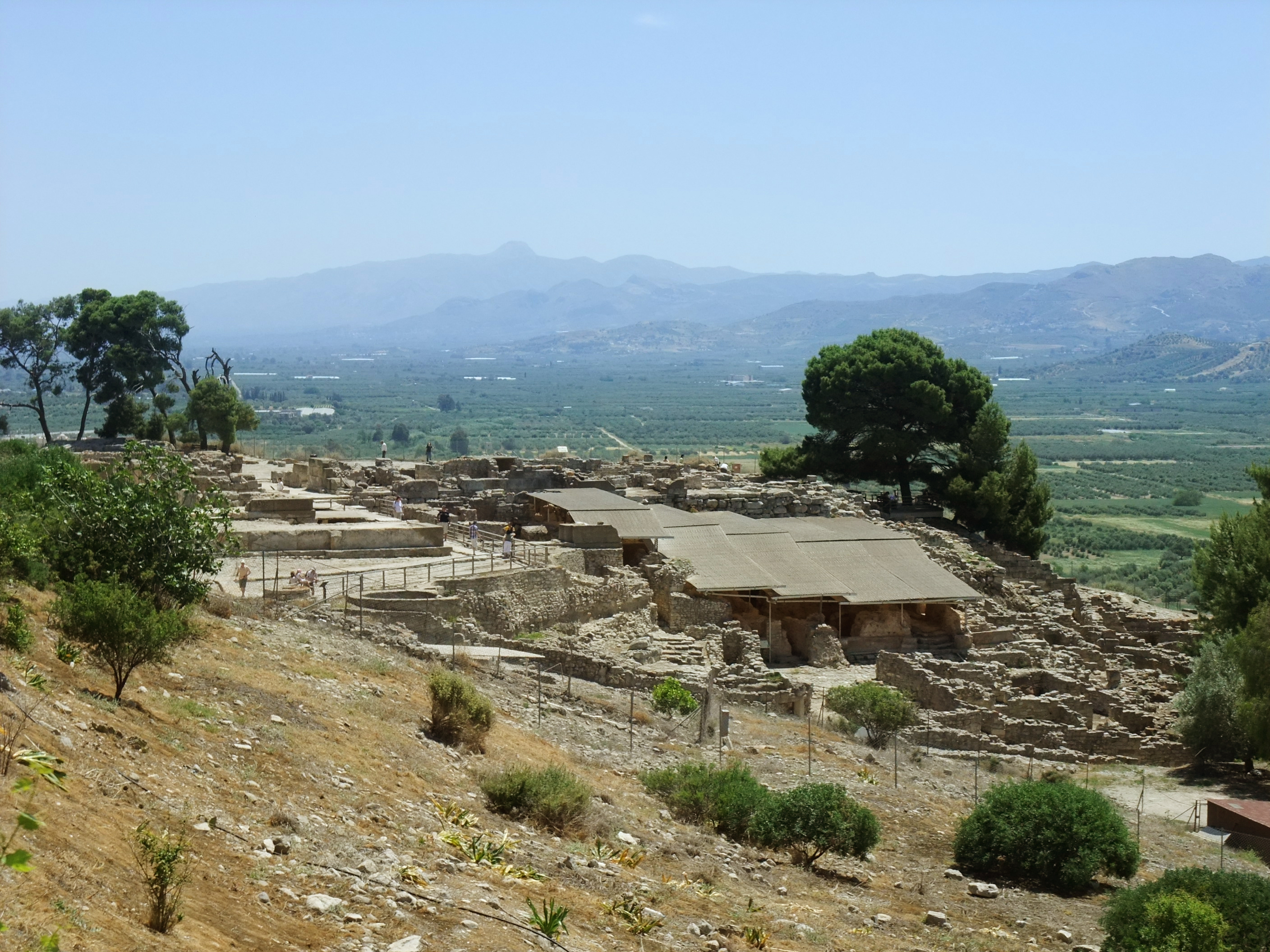 Minoan palace, archaelogical site Phaistos, Crete, Greece